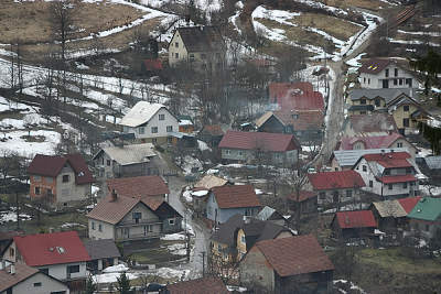 View of Nesluša